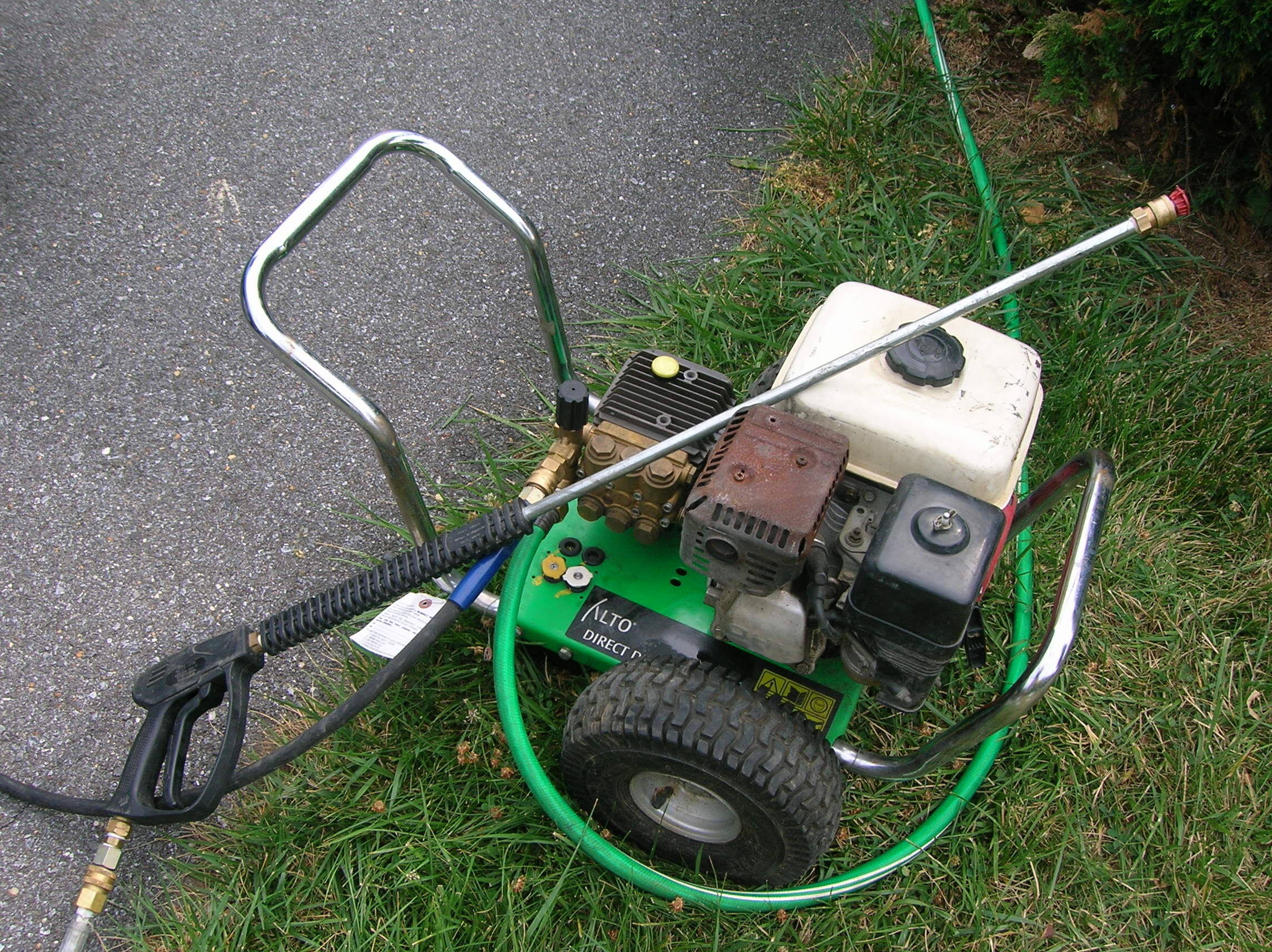 A Honda GX160 5.5 HP. pressure washer.